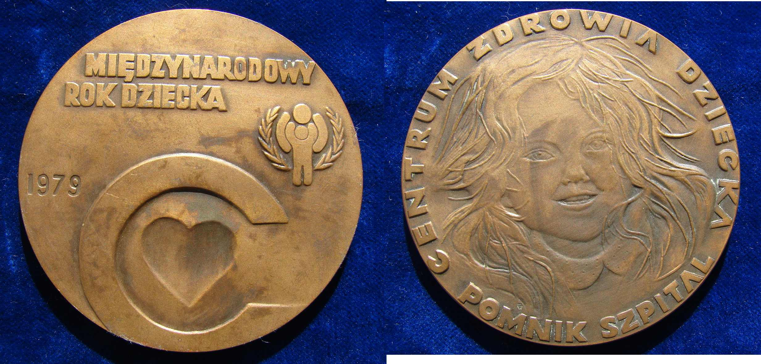 Bronze D. = 70 mm 3 lines left of the United Nations emblem of the International Year of the Child: "MIEDZYNARODOWY ROK DZIECKA 1979". Below the emblem of the childrens hospital in Warsaw / Head of a child, around: "CENTRUM ZDROWIA DZIECKA POMNIK SZPITAL" (Children's Memorial Health Institute) Condition: EXTREMELY FINE